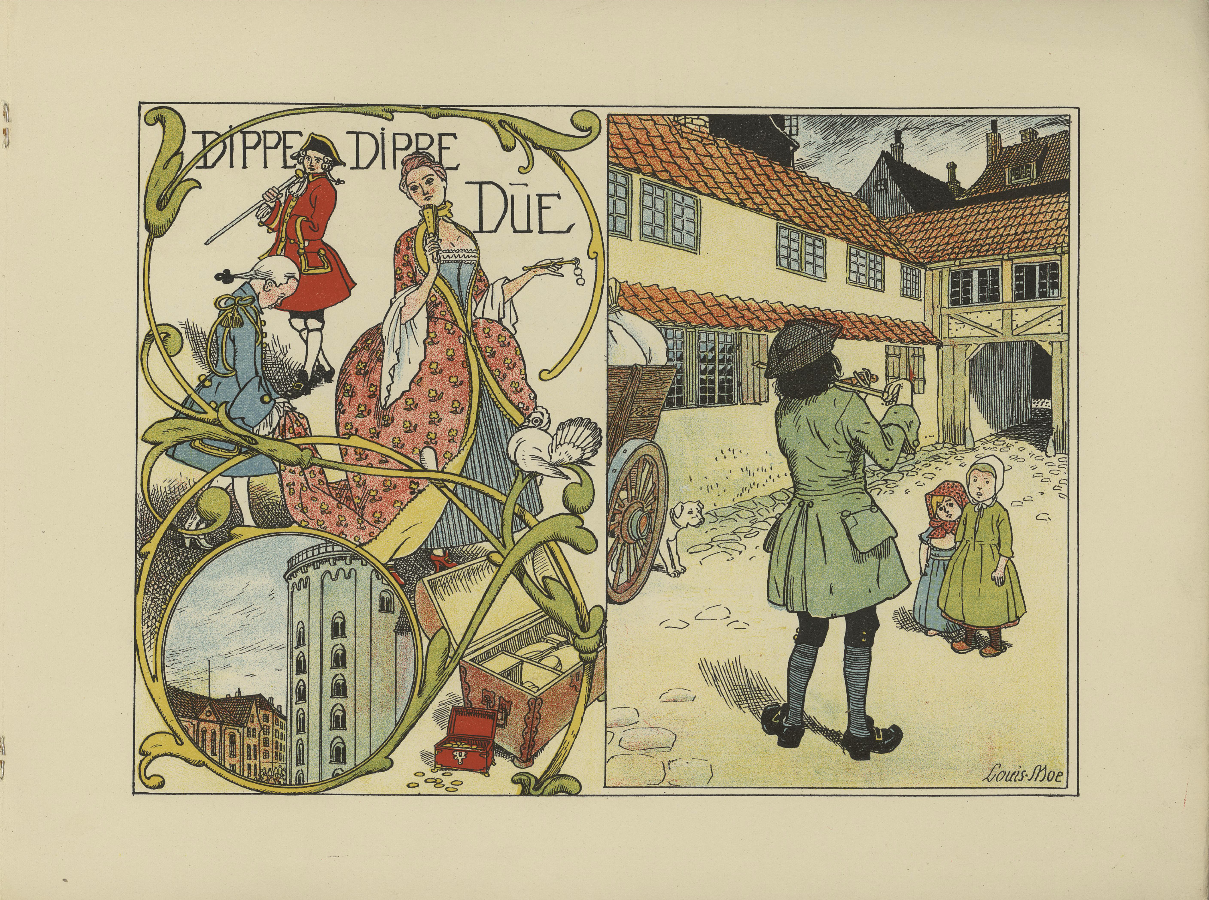 JPG from PDF of Louis Moe's Gamle børnerim og lege med nye billeder" published by Grimsgaard & Bretteville, Oslo, Norway 1901, uploaded from National Library of Norway's site: [Kilde for metadata: NO-OsNB (990510759114702202)]